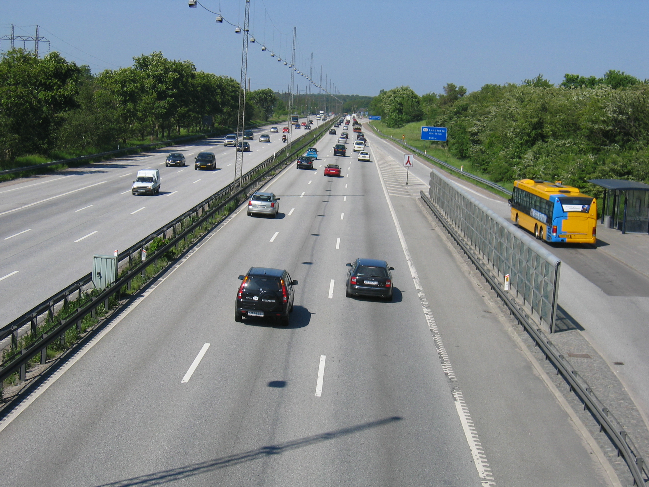 Elsinore Freeway. Part of the E47 and E55, Denmark